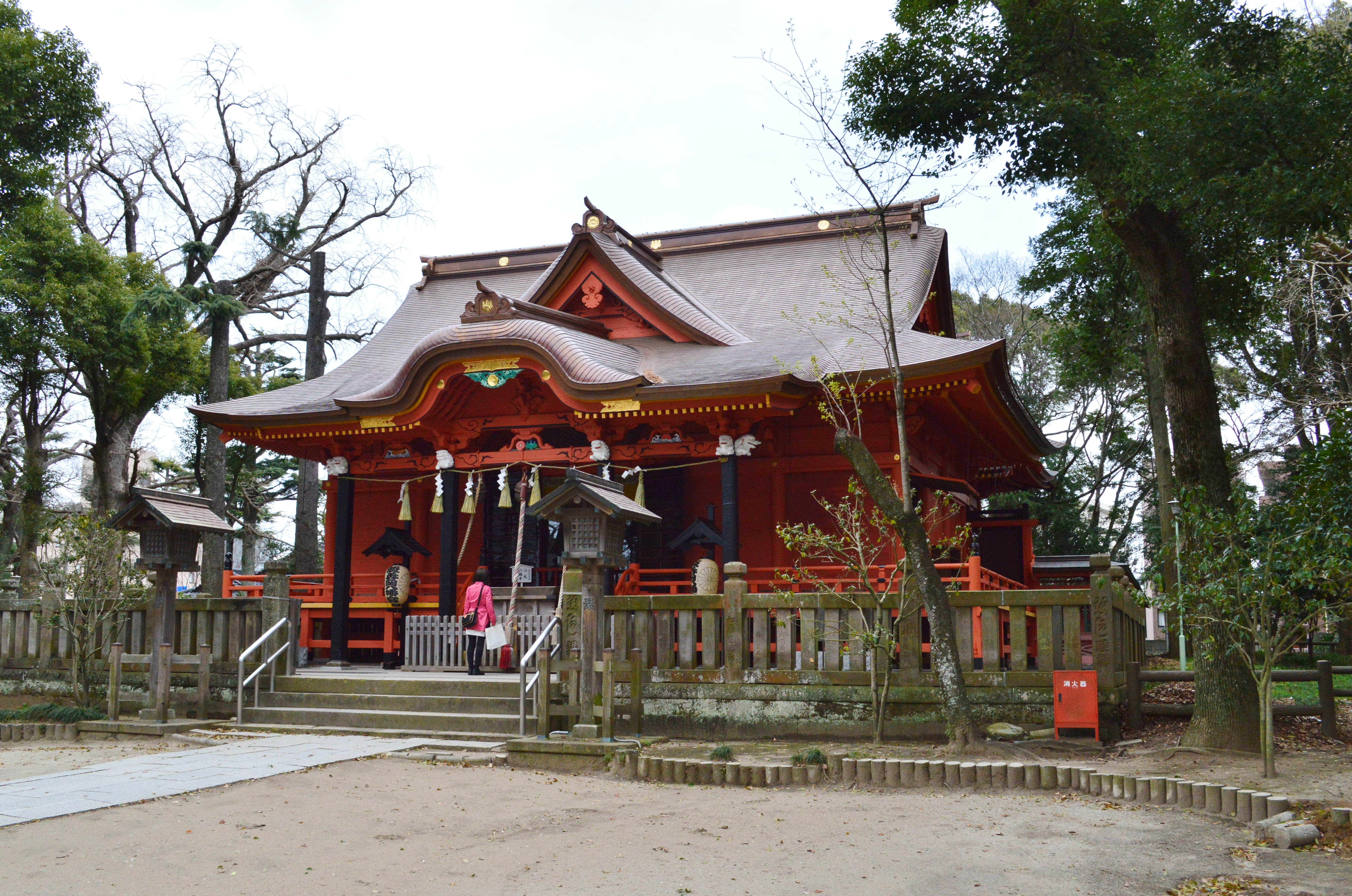 Worship hall (haiden) of the Iigaoka Hachiman Shrine in Ichihara City, Chiba Prefecture, Japan